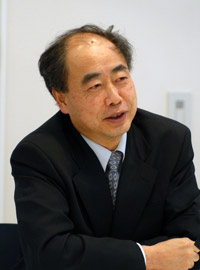 Nobel prise winner in physics 2008